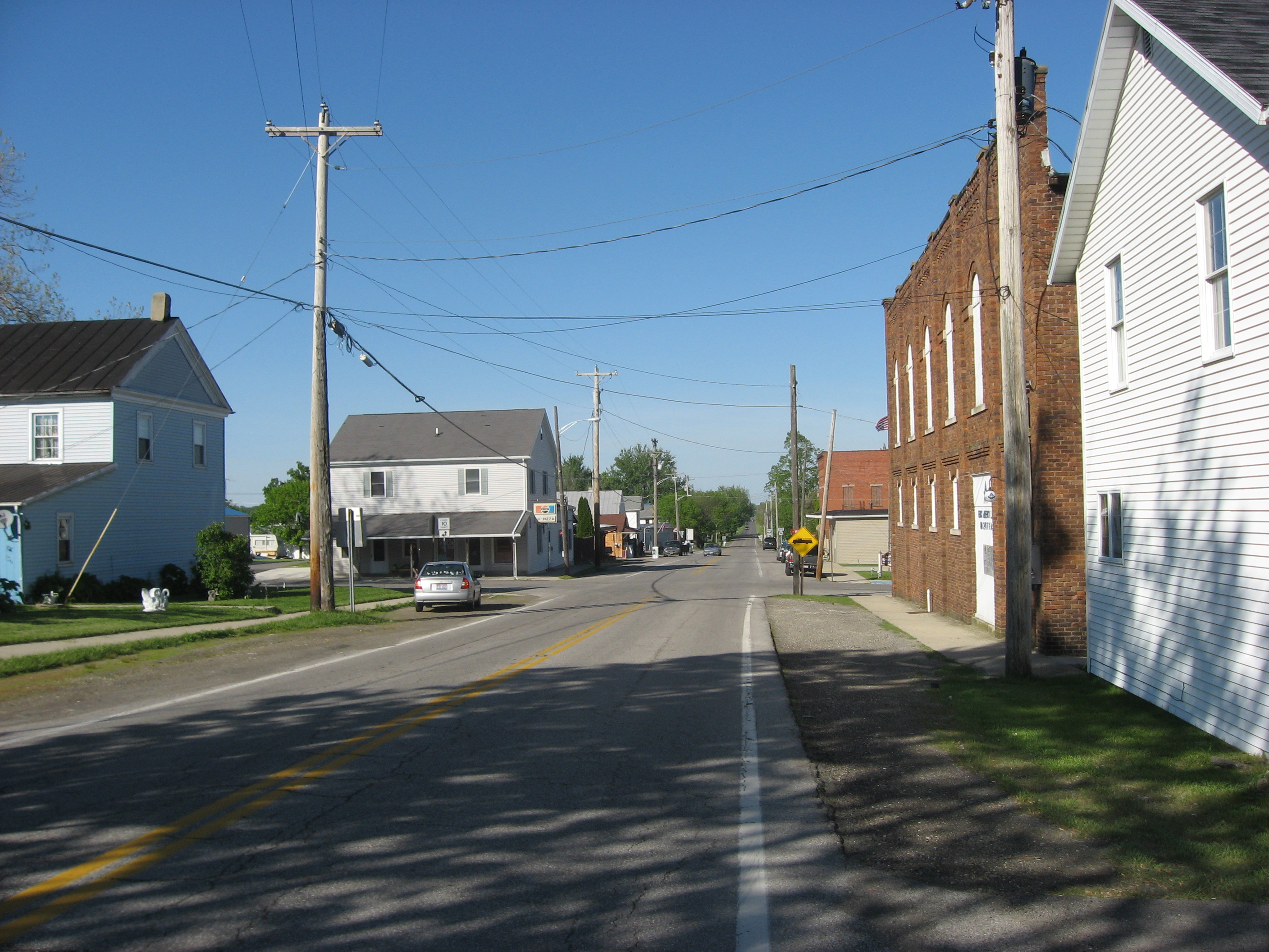 Eastward along Foundry Street (State Route 292) in central East Liberty, Ohio, United States.